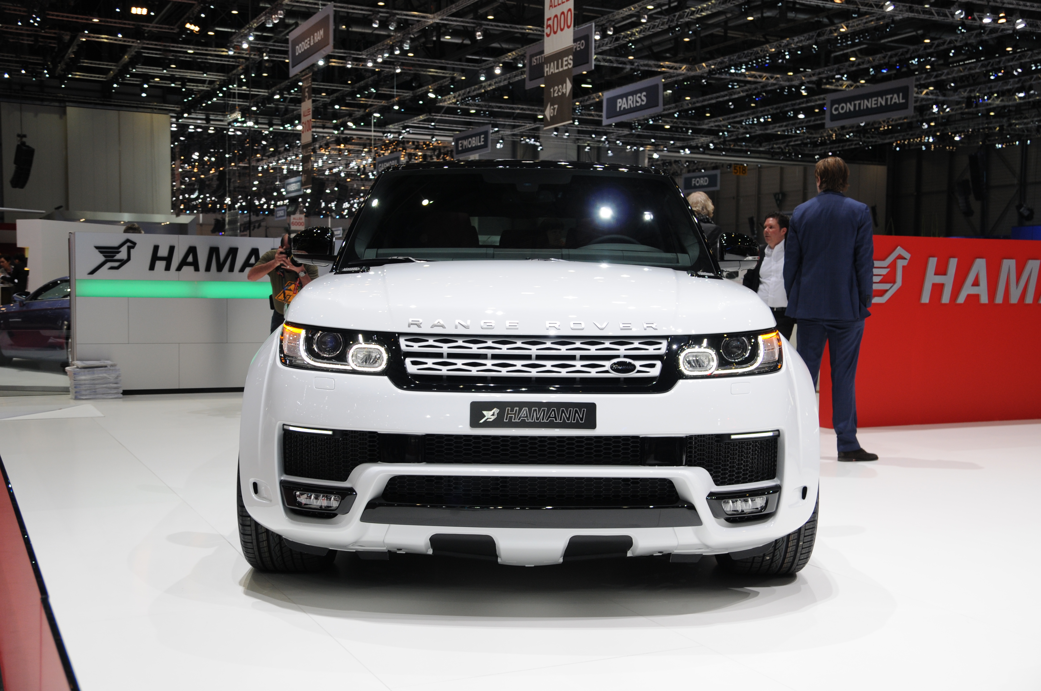 Geneva Motor Show 2014 (photo taken on the first press day)